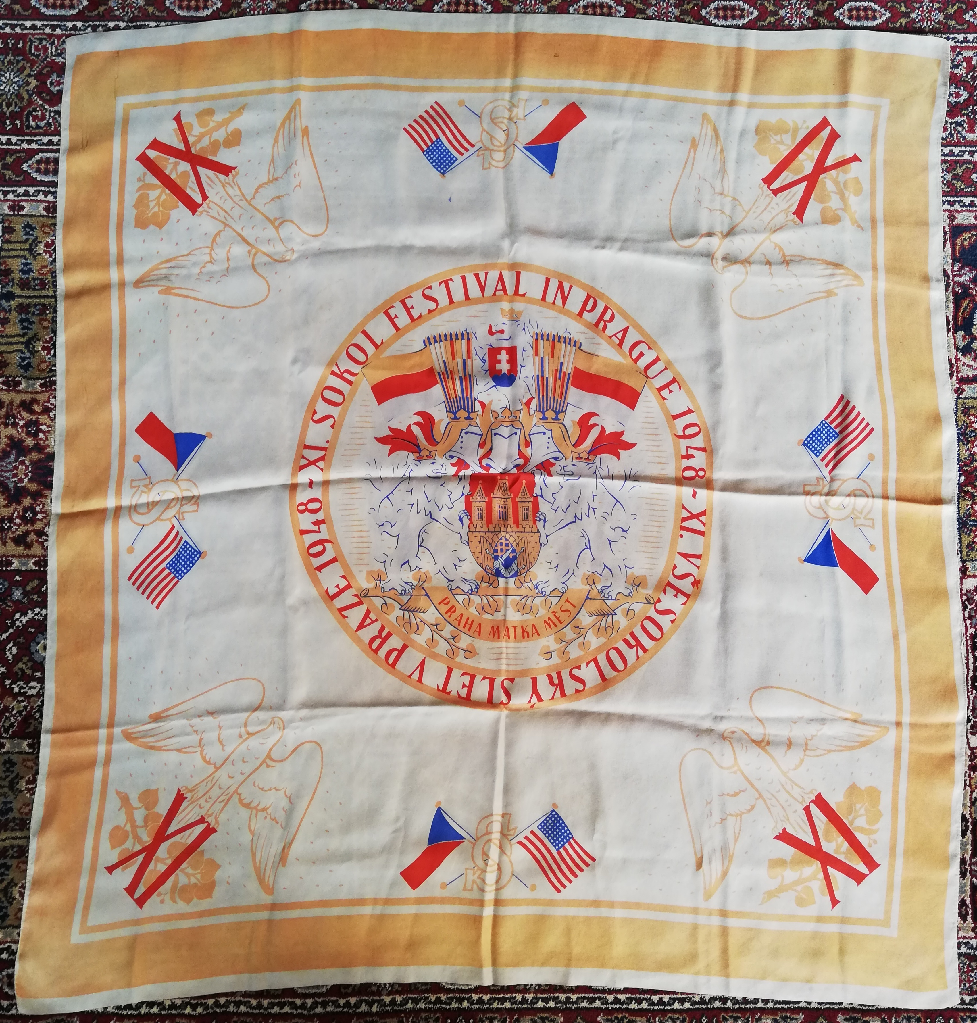 Silk scarf with motif of Prague, Sokol motifs and with two flags (Czechoslovak and American) and bilingual inscription: „XI. Sokol Festival in Prague 1948“ („XI. všesokolský slet v Praze 1948“)